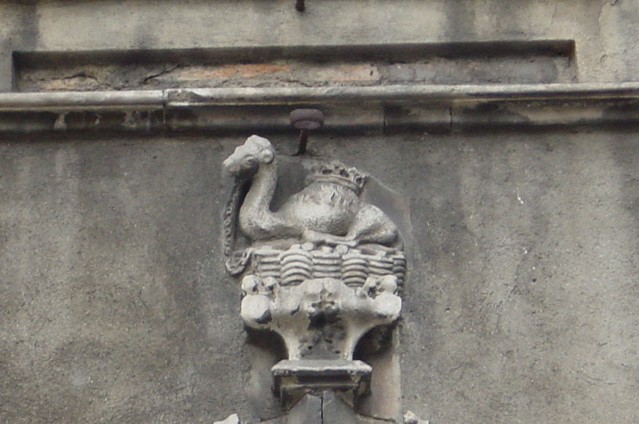 Palazzo Borromeo in Milan, Italy. Detail with the heraldic dromedary of the House of Borromeo. Picture by Giovanni Dall'Orto, march 21 2005.